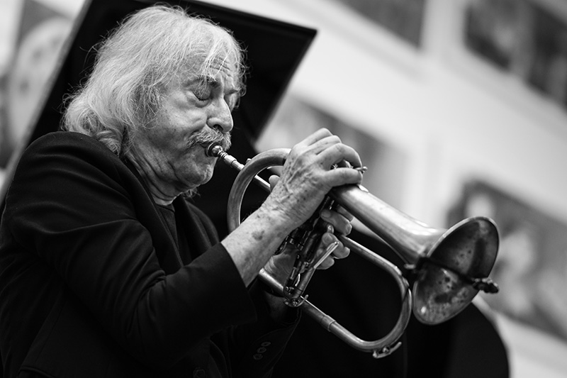 Enrico Rava in Aarhus, Denmark 2017